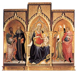 Battista di Gerio, Madonna col Bambino e Santi, Camaiore